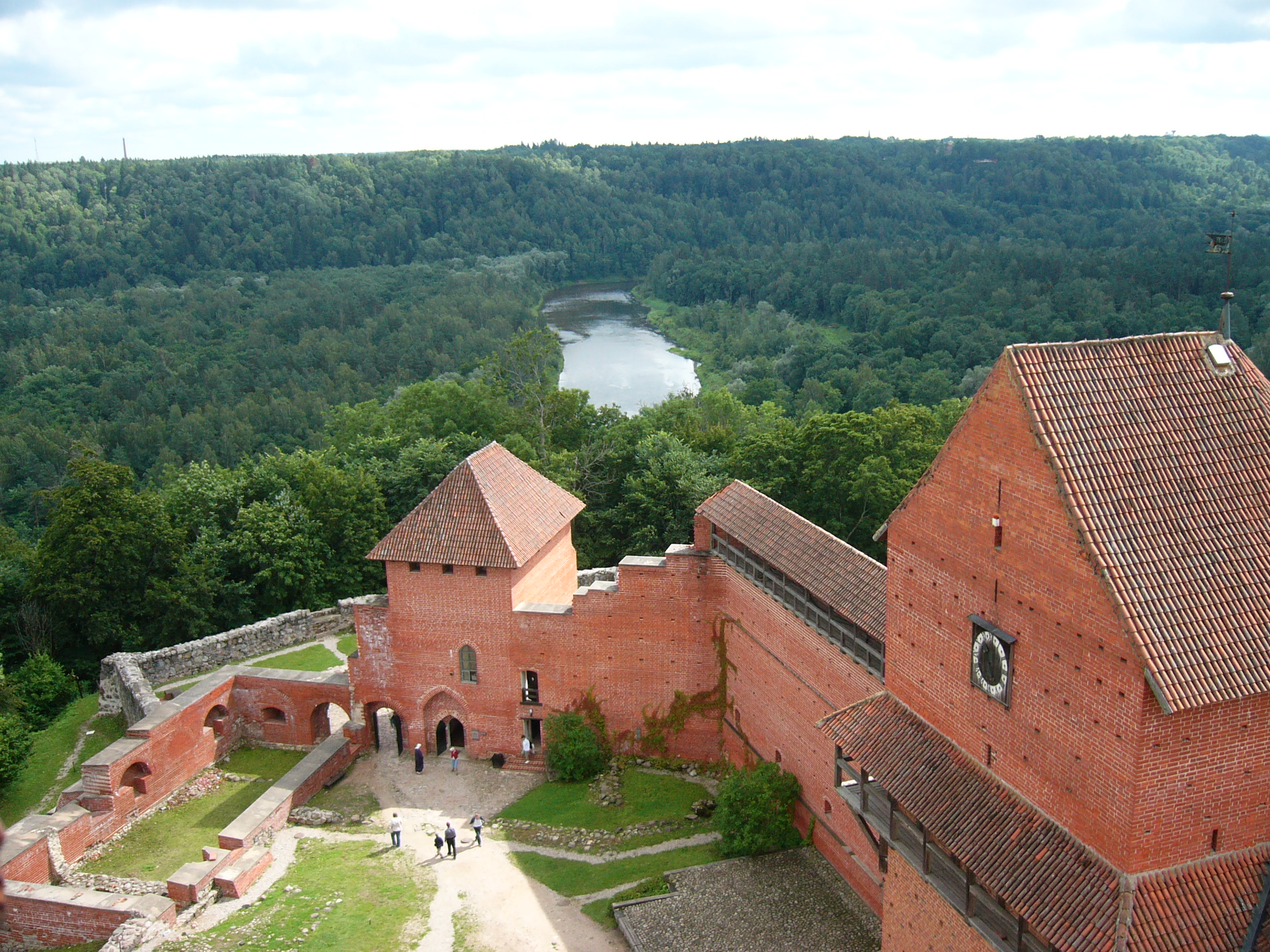 Turaida castle with view from highest tower